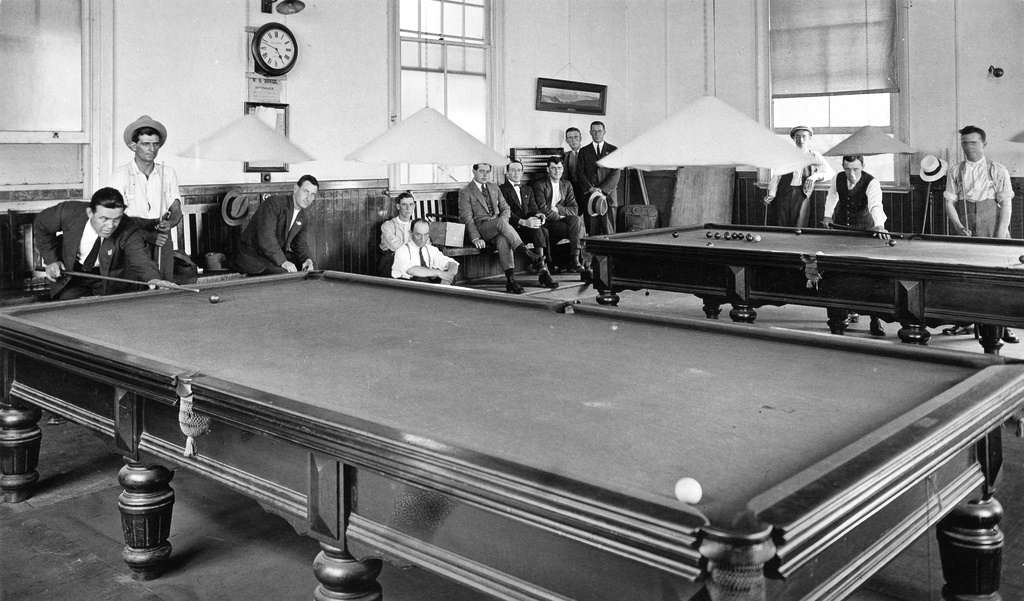 Billiard room in Cheer-up hut, Adelaide.